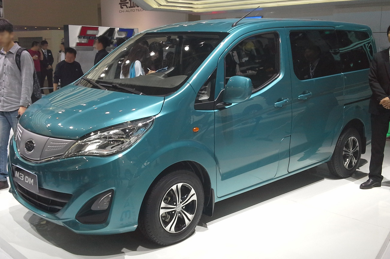 BYD M3 DM photographed at the Auto China 2014, Beijing, China.